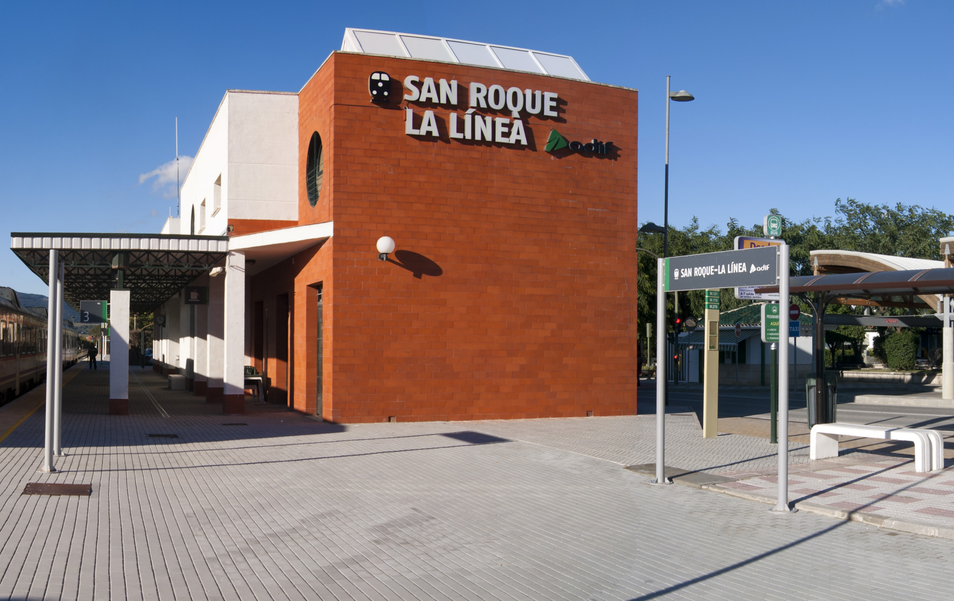 San Roque-La Línea train station (Spain)